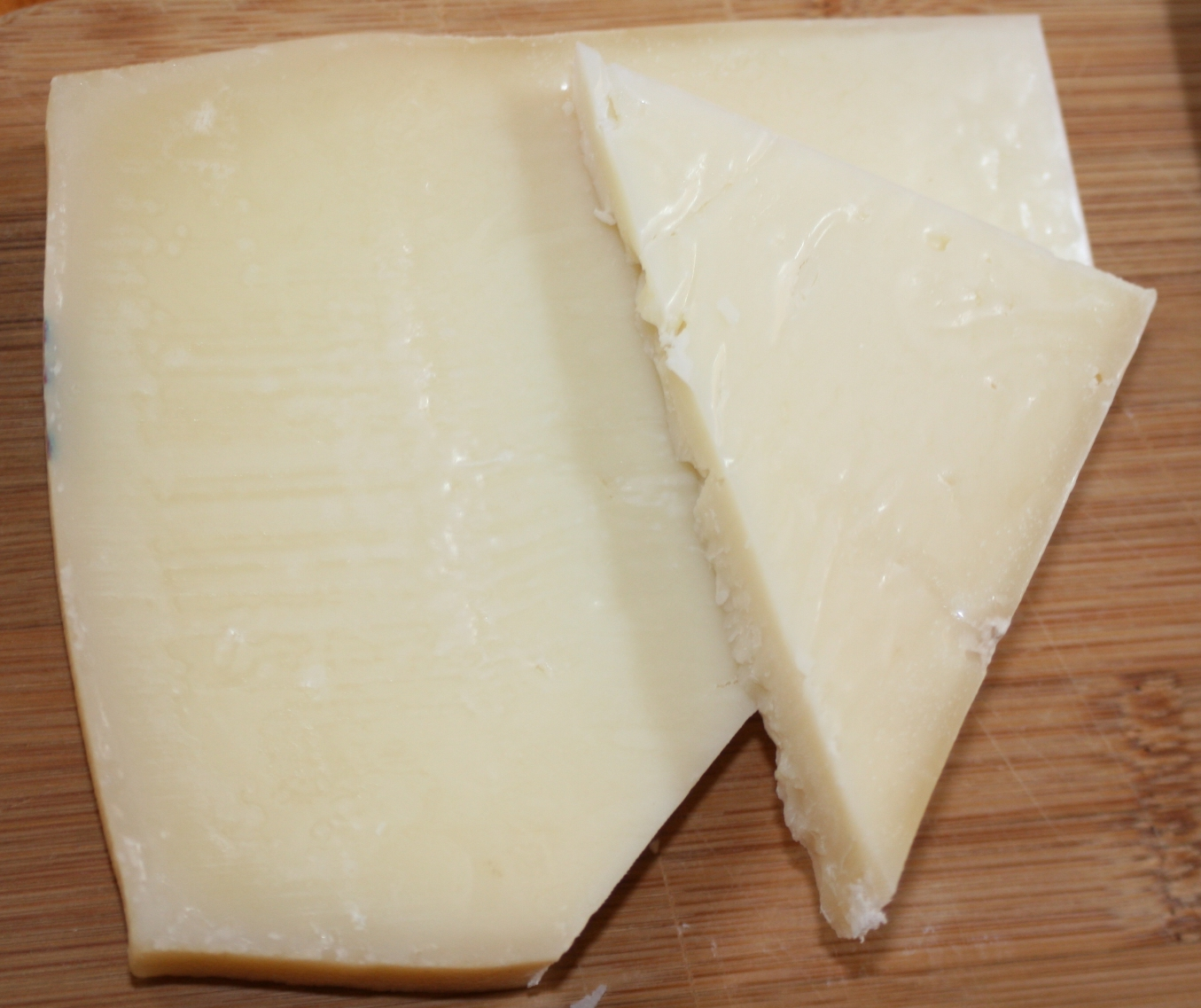 A Piece of Cypriot Kefalotyri cheese.